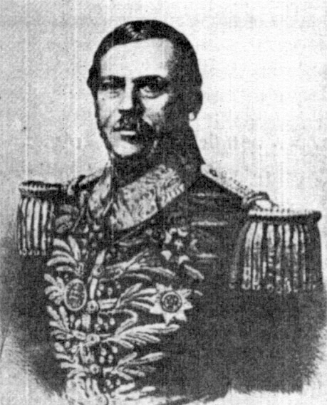 Lithography of the Baron (later Count) of Porto Alegre as General Deputy representing the province of Rio Grande do Sul